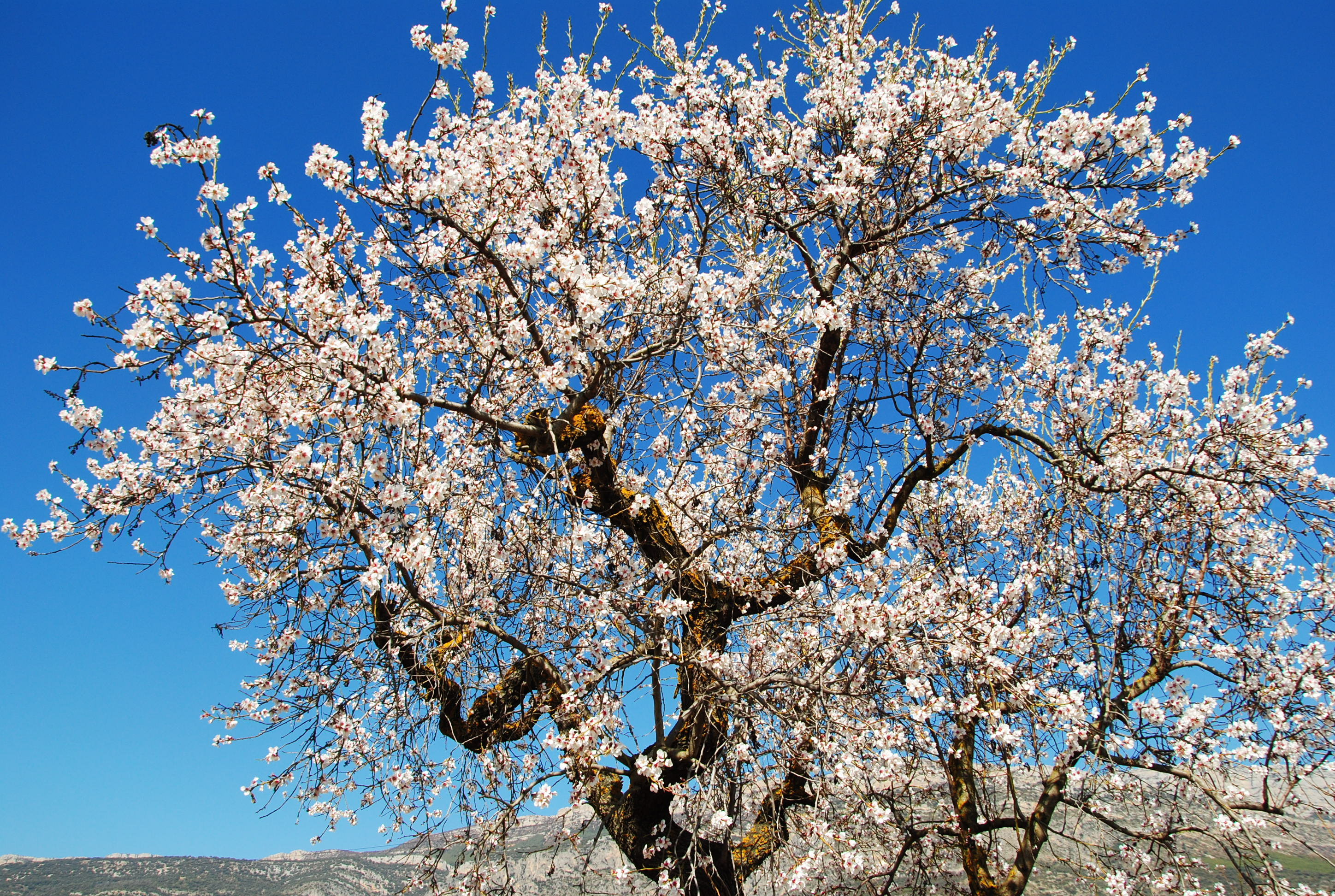 almond tree at Montsec